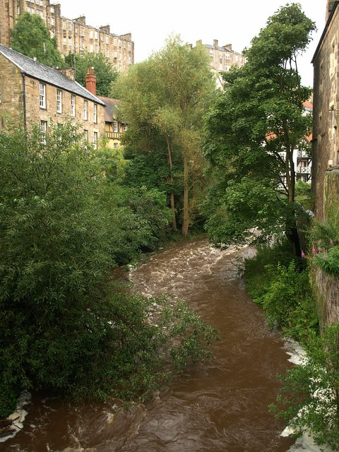 Water of Leith at Dean village Looking upstream from the bridge at the foot of Dean Path. There has been a lot of rain and the river is in ferocious mood.